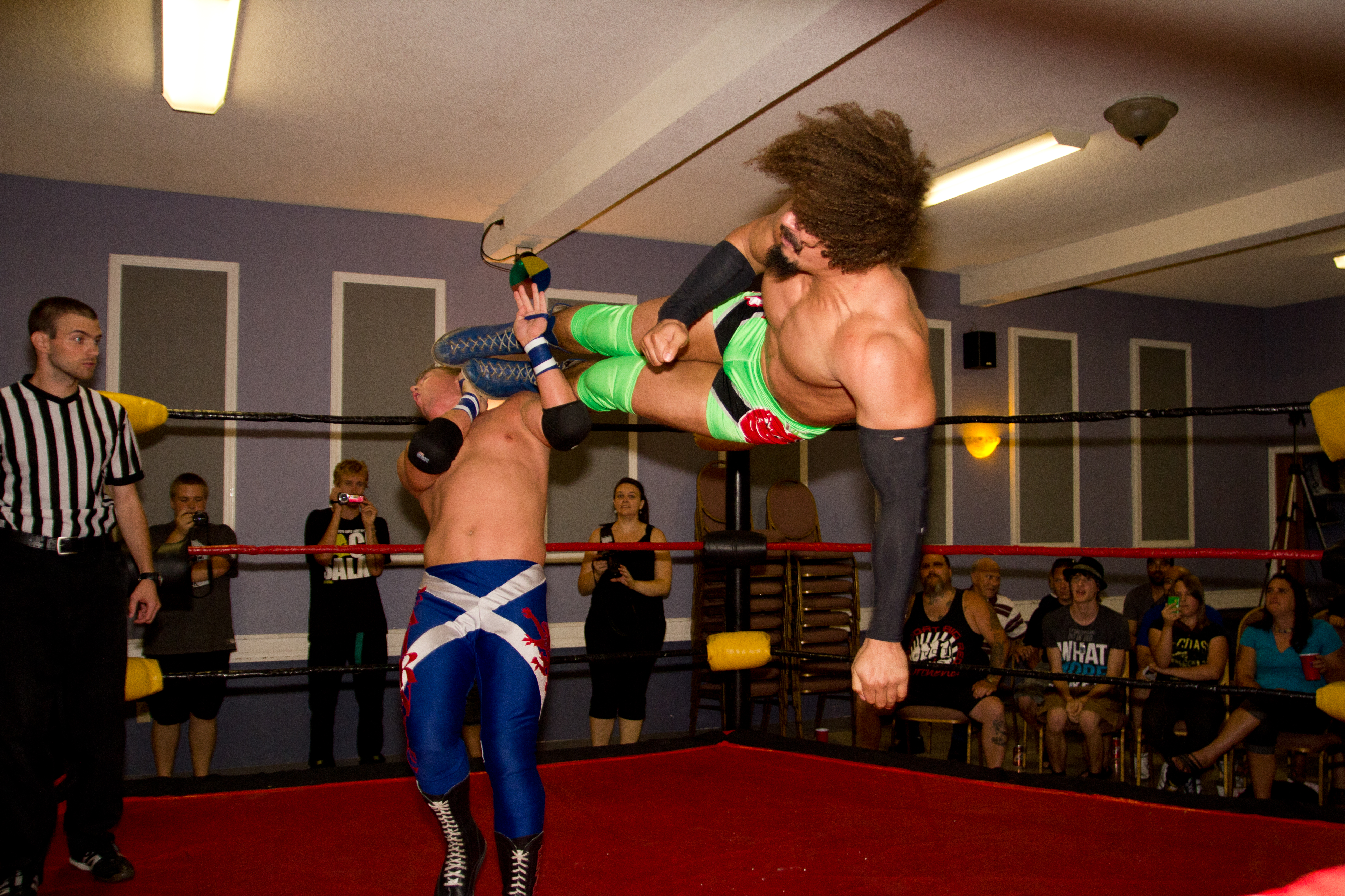 Carlito (Carly Colón) executing a dropkick against Eric Cairnie